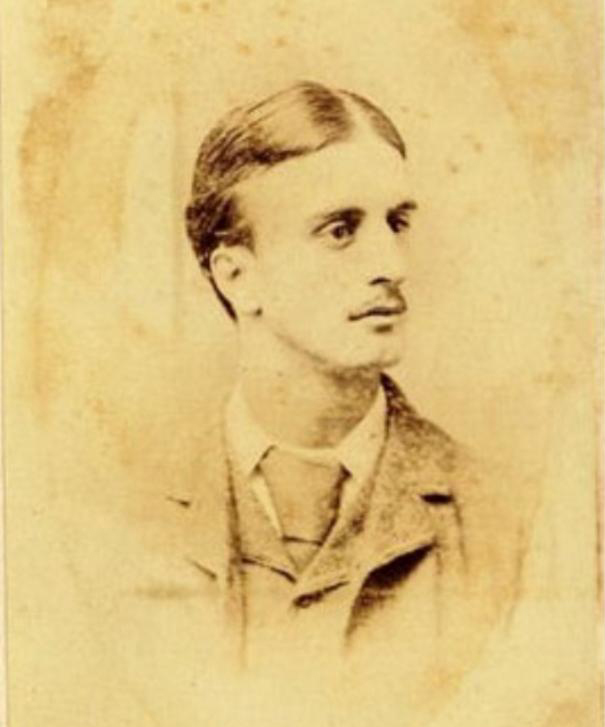 Montague John Druitt (1857–1888): barrister, cricketer, schoolmaster and suspect in the Jack the Ripper murders.